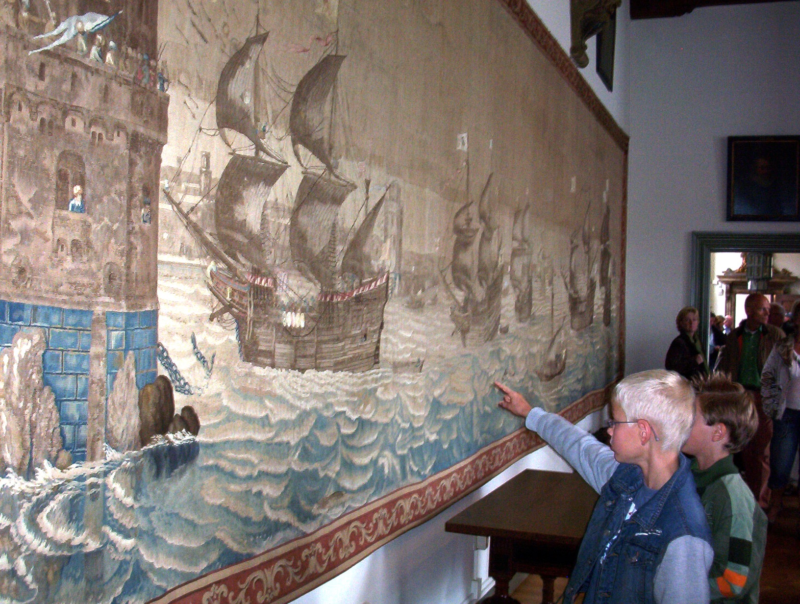 Tapestry depicting Damiate legend that hangs in the Haarlem City Hall, in Haarlem, the Netherlands. On April 12, 1629, Haarlem began payments for "The Ship of Damiate". Designer Cornelis Claesz. van Wieringen received 300 Flemish pounds. The glasscutter Pieter van Holstein, who made the pattern, received 225 Flemish pounds, and later another 25 Flemish pounds for the binding. The Haarlem tapestry weaver Joseph Thienpont received the amount of 2003 Flemish pounds. The tapestry is 10,75 meters long and 2,40 meters high, and is the largest wall tapestry of the 17th century.